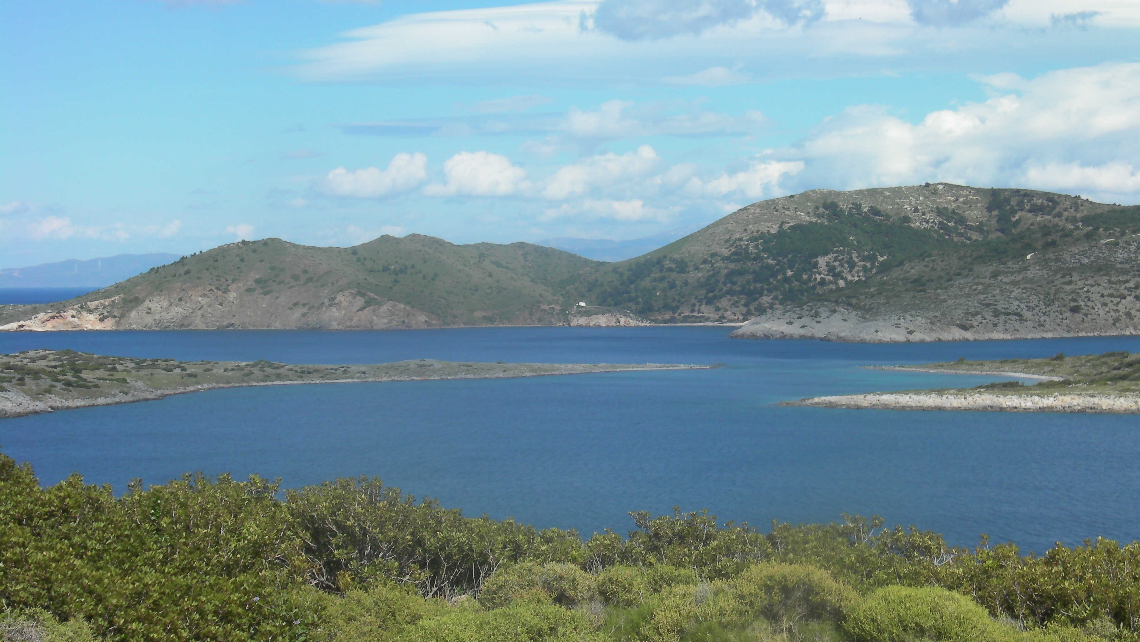 This is a photography of Natura 2000 protected area with ID GR4130001